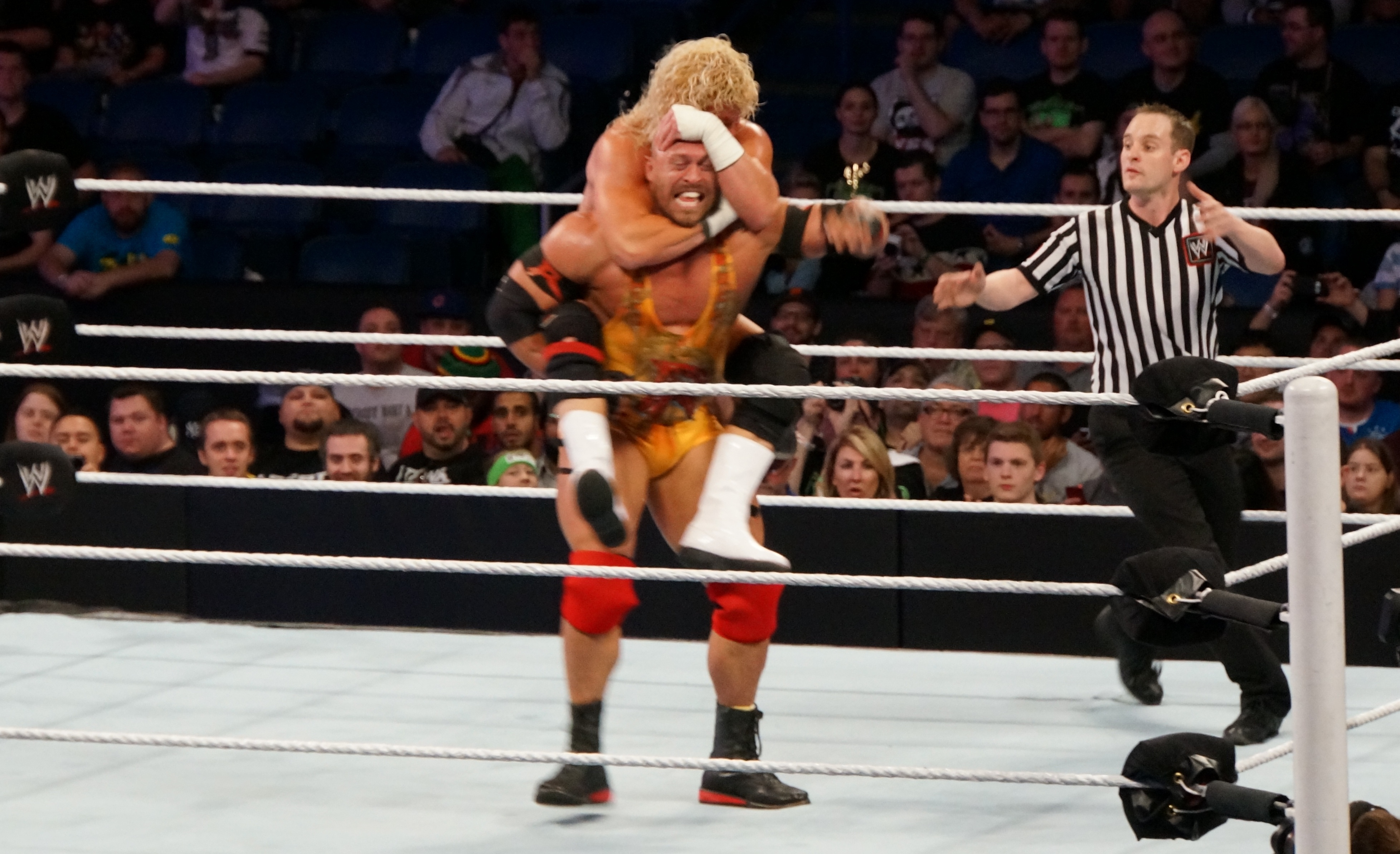 Dolph Ziggler wrestles Ryback before the post-WrestleMania Raw on 7 April 2014